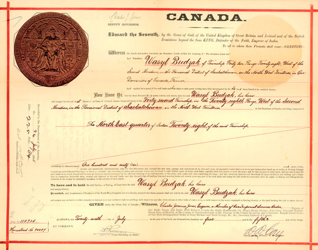 ISC Land Grant